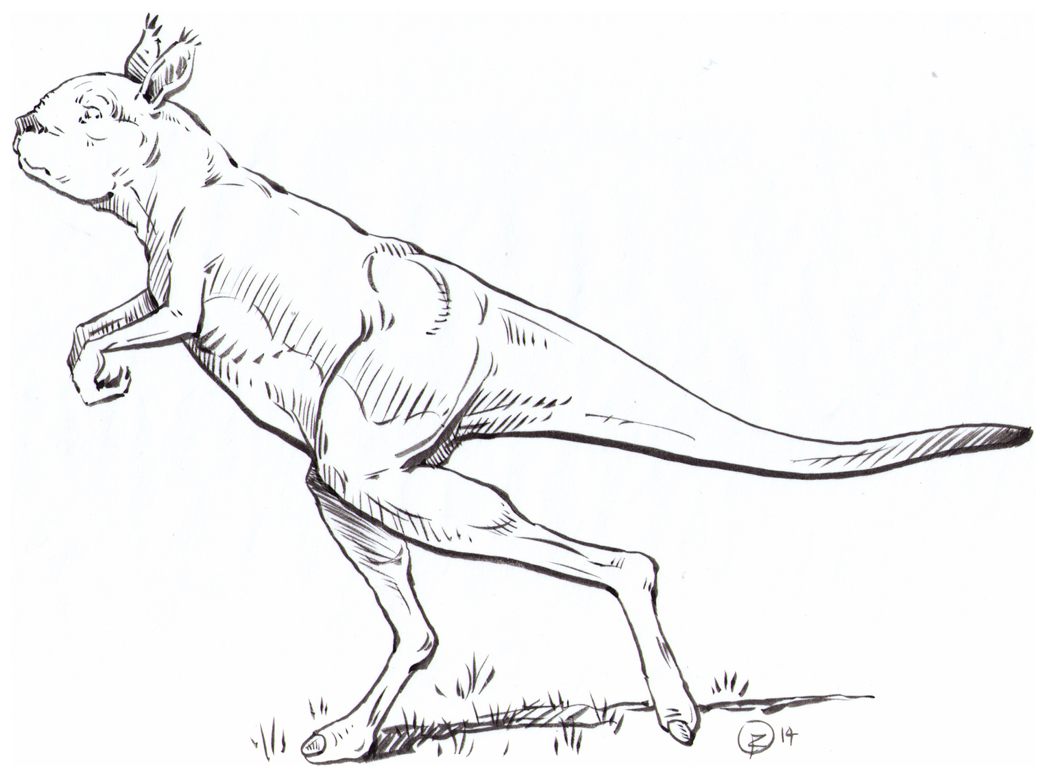 Reconstruction of Sthenurus stirlingi in walking pose.